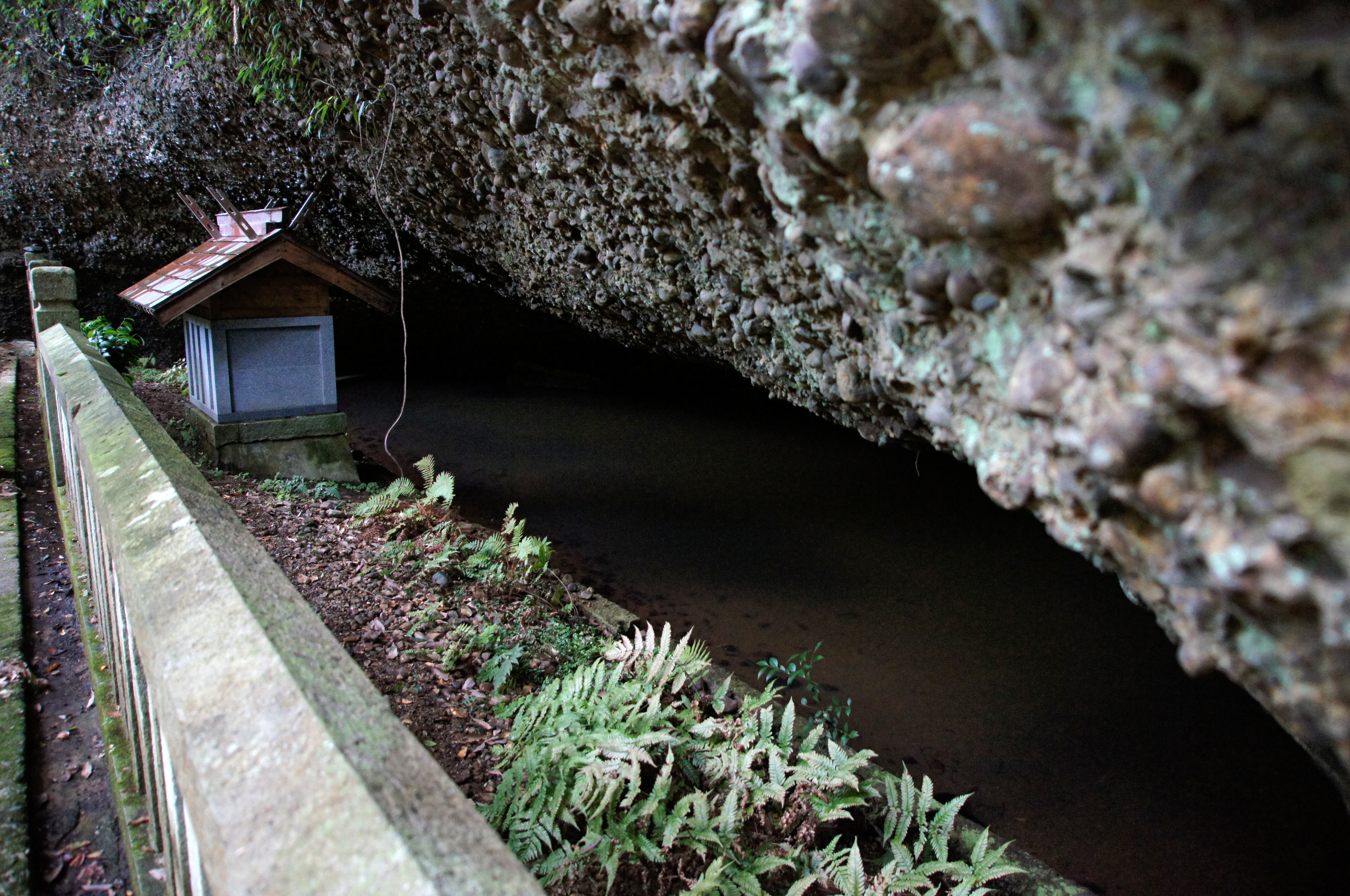 Shijimi-no-iwamuro, Miki, Hyogo prefecture, Japan